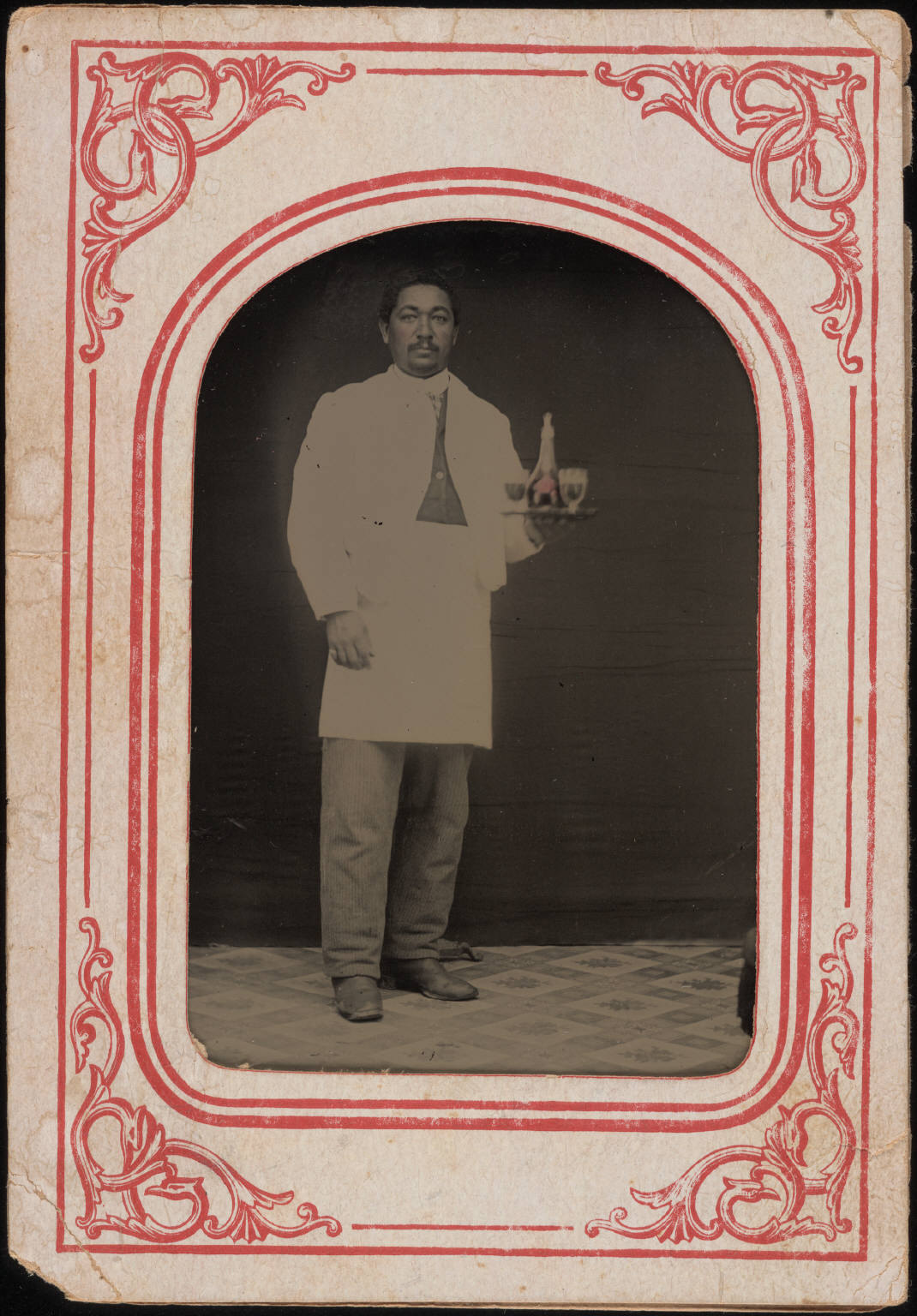 Date: ca. 1890 Part of: African-American Collection Physical Description: 1 photograph tintype Folder or box number: Folder 95 Genre/Form: Tintypes Cite as: Yale Collection of American Literature, Beinecke Rare Book and Manuscript Library Repository: Beinecke Rare Book & Manuscript Library, Yale University Bibliographic Record Number: 2002186 Call Number: Uncat JWJ MS 59 View our Record: Permalink Flickr data on 2011-08-25: License: CC BY 2.0 User: Beinecke Library